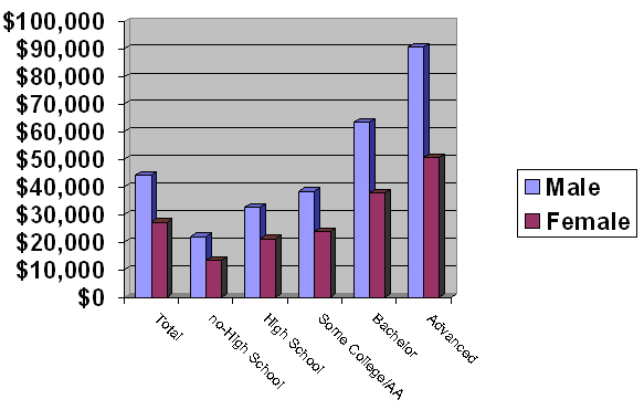 I created the chart myself using US Census Data.